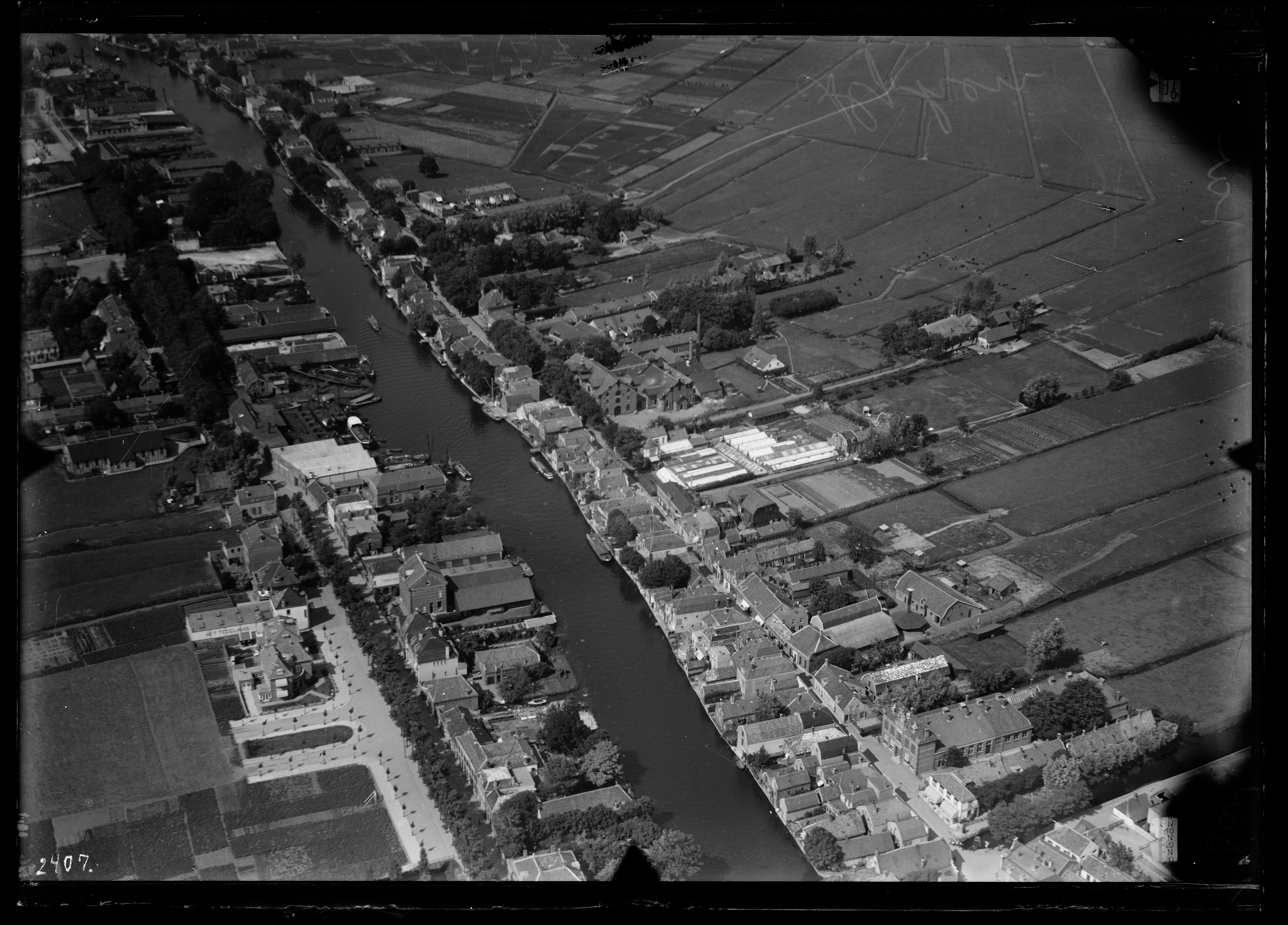 Aerial photograph of Alphen aan den Rijn, The Netherlands